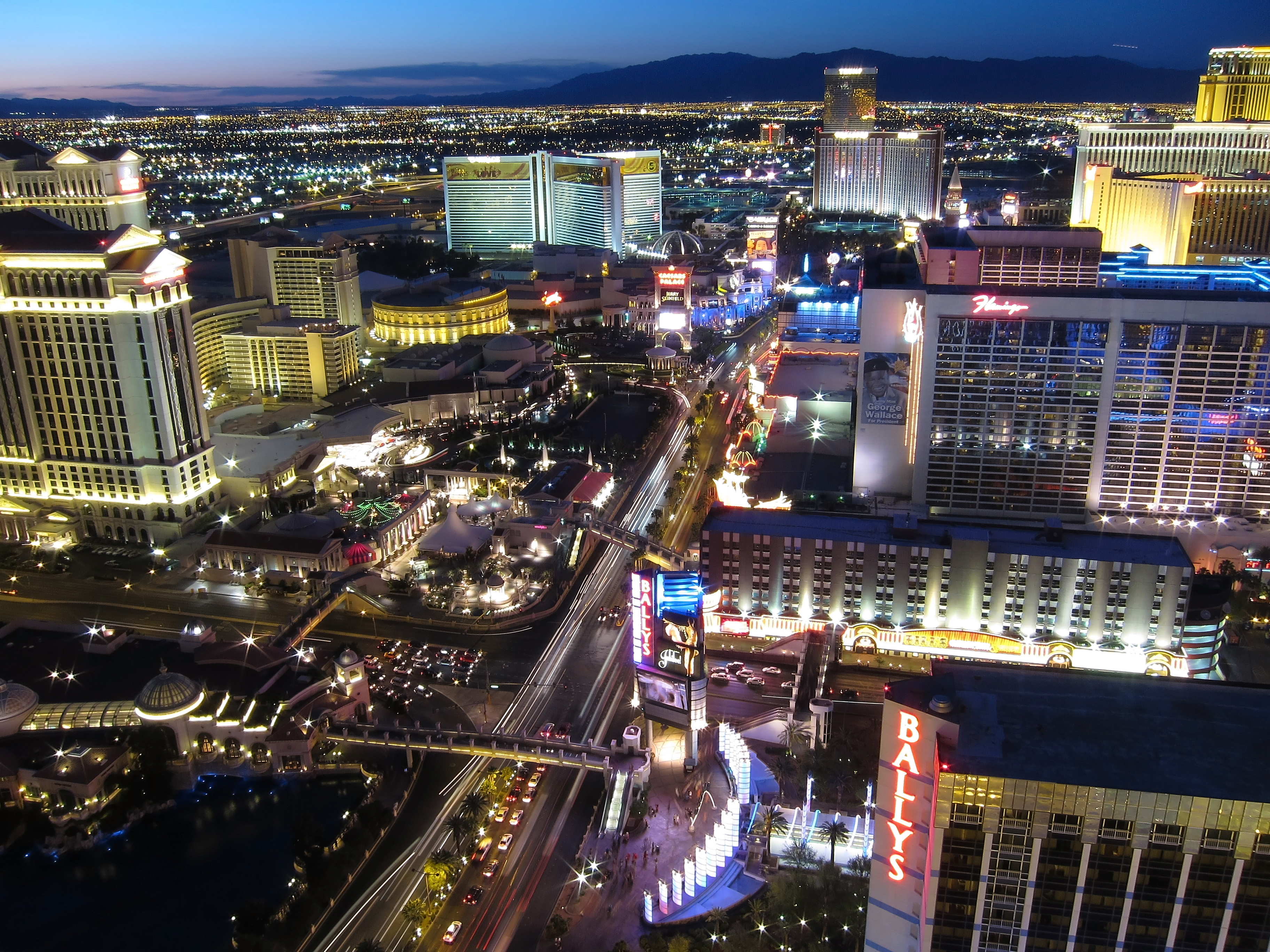 View of the Las Vegas Strip at night from the Eiffel Tower